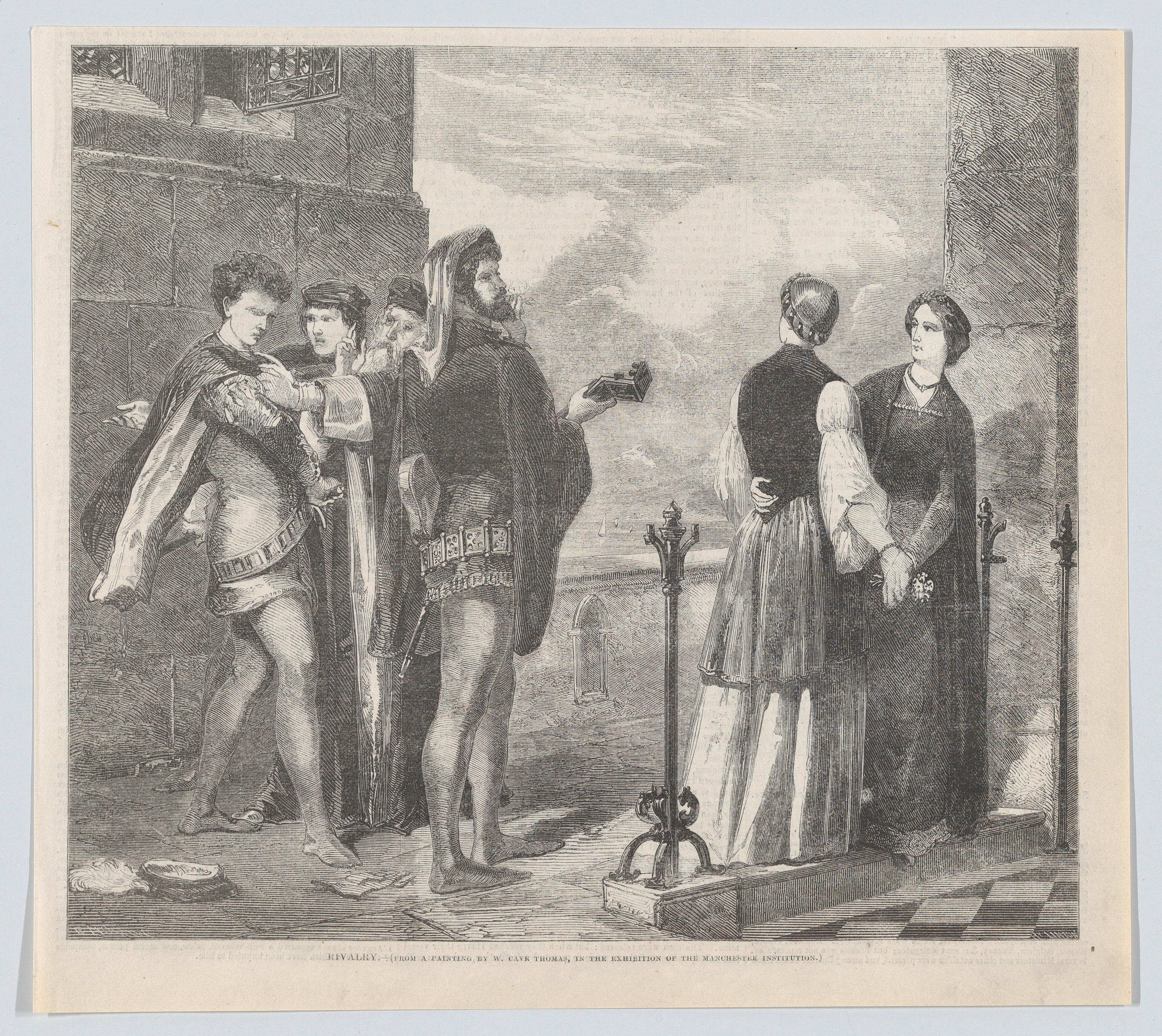 Prints